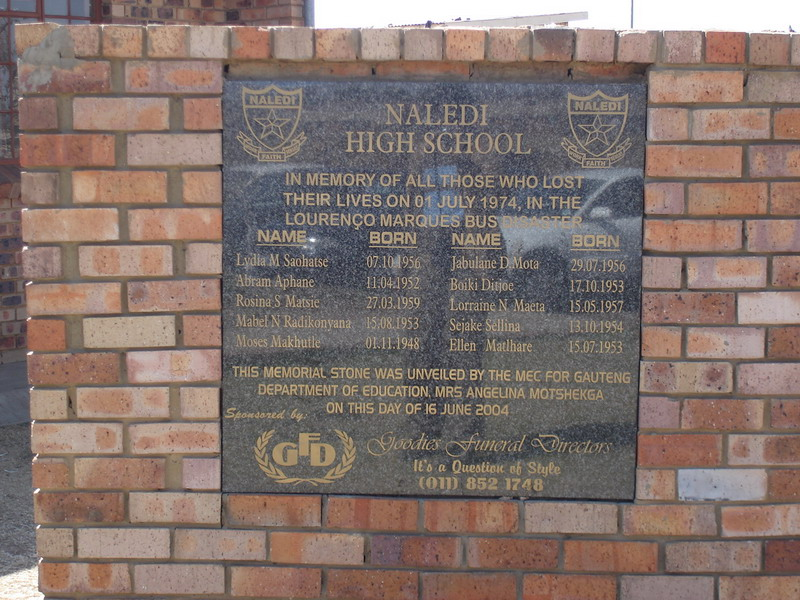 Naledi High School in Soweto - Monument